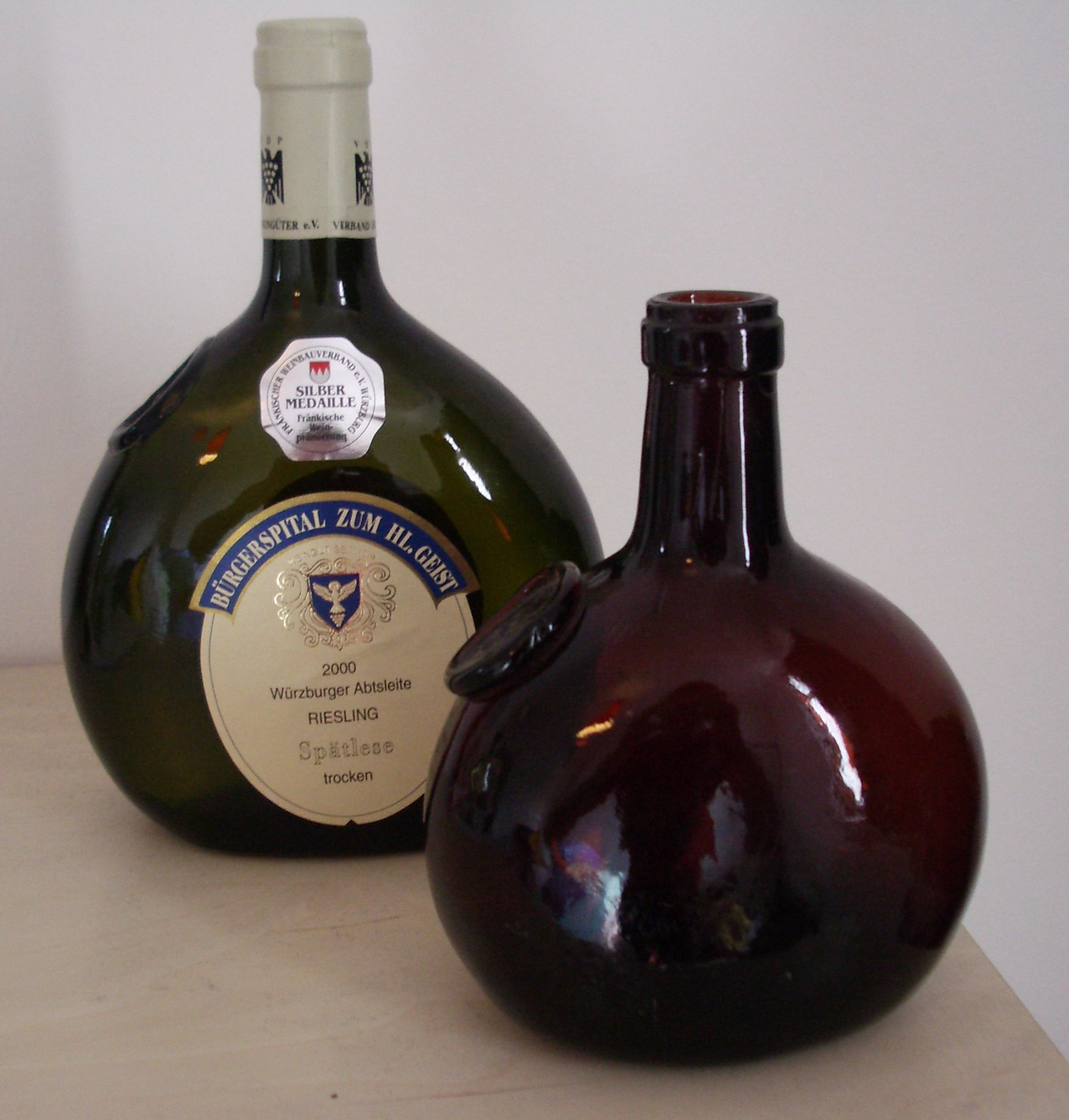 Bocksbeutels from Franken, one modern, the other late 19th century. Both Bürgerspital winemakers.